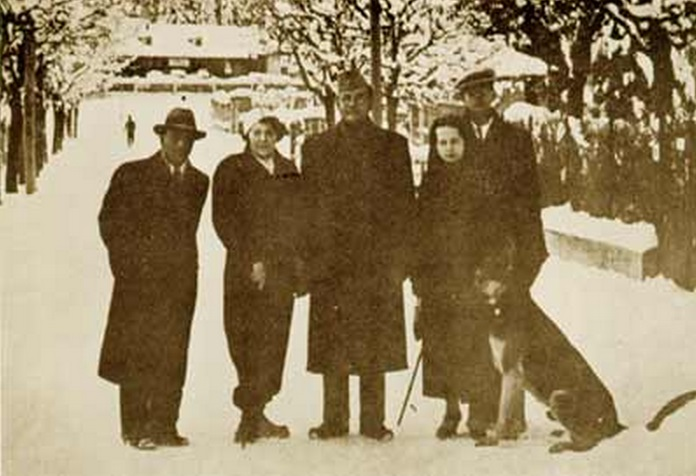 Indian nationalist, and Indian National Congress president-elect, Subhas Chandra Bose (center) with (from left to right) A. C. N. Nambiar (later to be his second-in-command in Berlin 1941–1943), Heidi Fulop Miller, Emilie Schenkl and Amiya Bose, Bad Gastein, Austria, December 1937